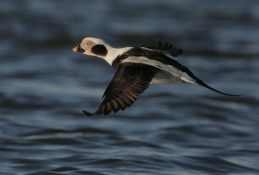 A drake Long-tailed Duck in flight. Image taken off the outer Eden Estuary near St Andrews, Fife, Scotland.